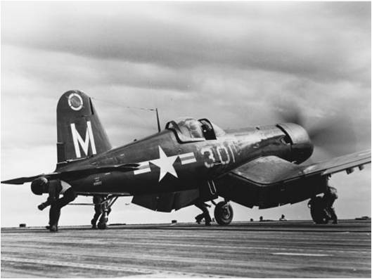 A U.S. Navy Vought F4U-5 Corsair of Fighter Squadron 23 (VF-23) "Flashers" on the deck of the light aircraft carrier USS Wright (CVL-49), in November 1948.